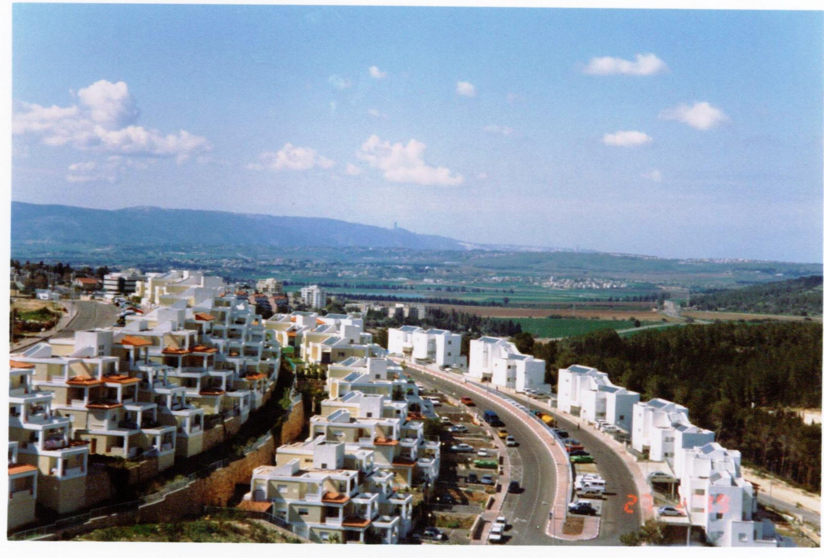 Cities in Israel